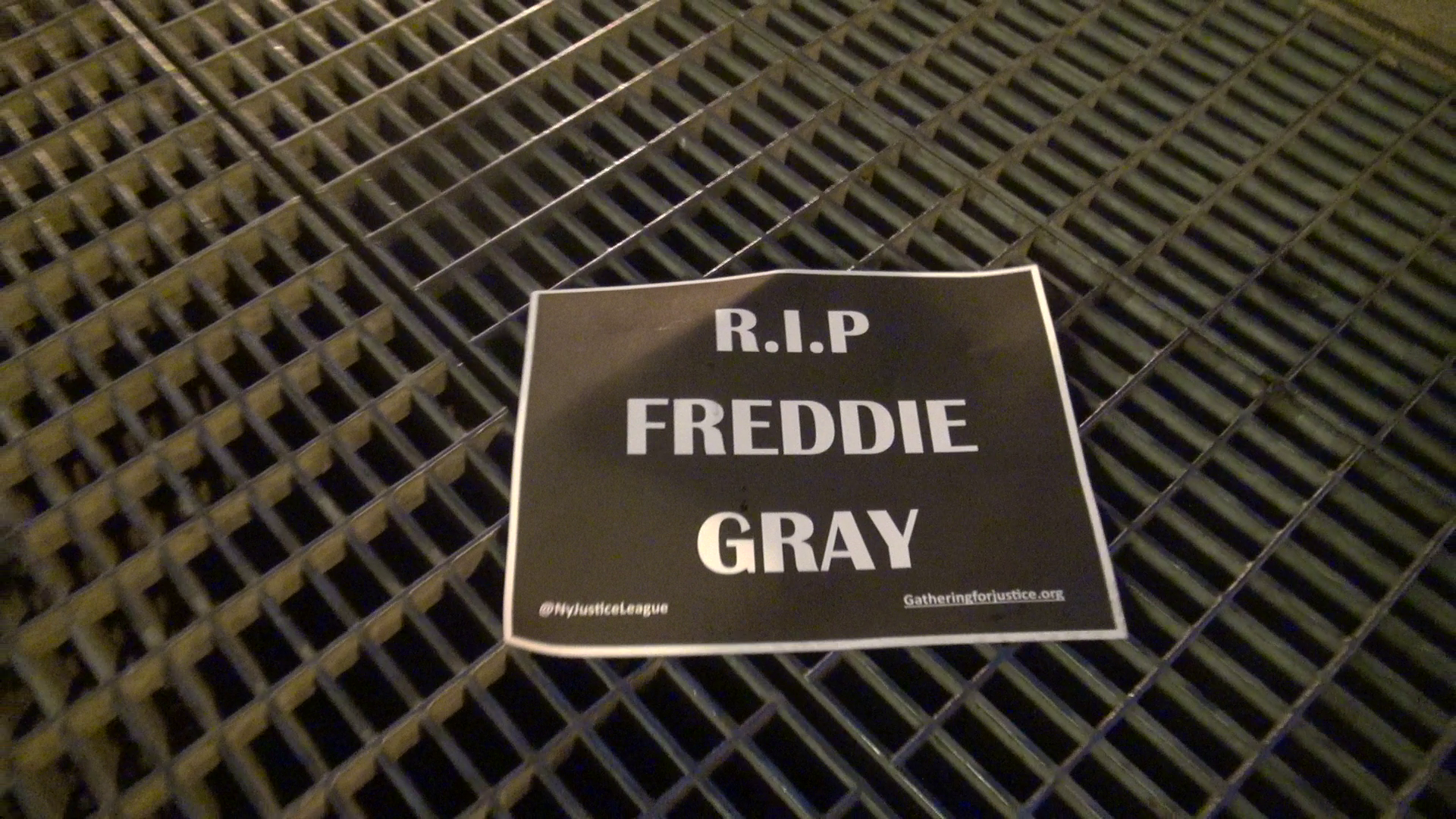 photo from march on Apr 29 in NYC for #blacklivesmatter